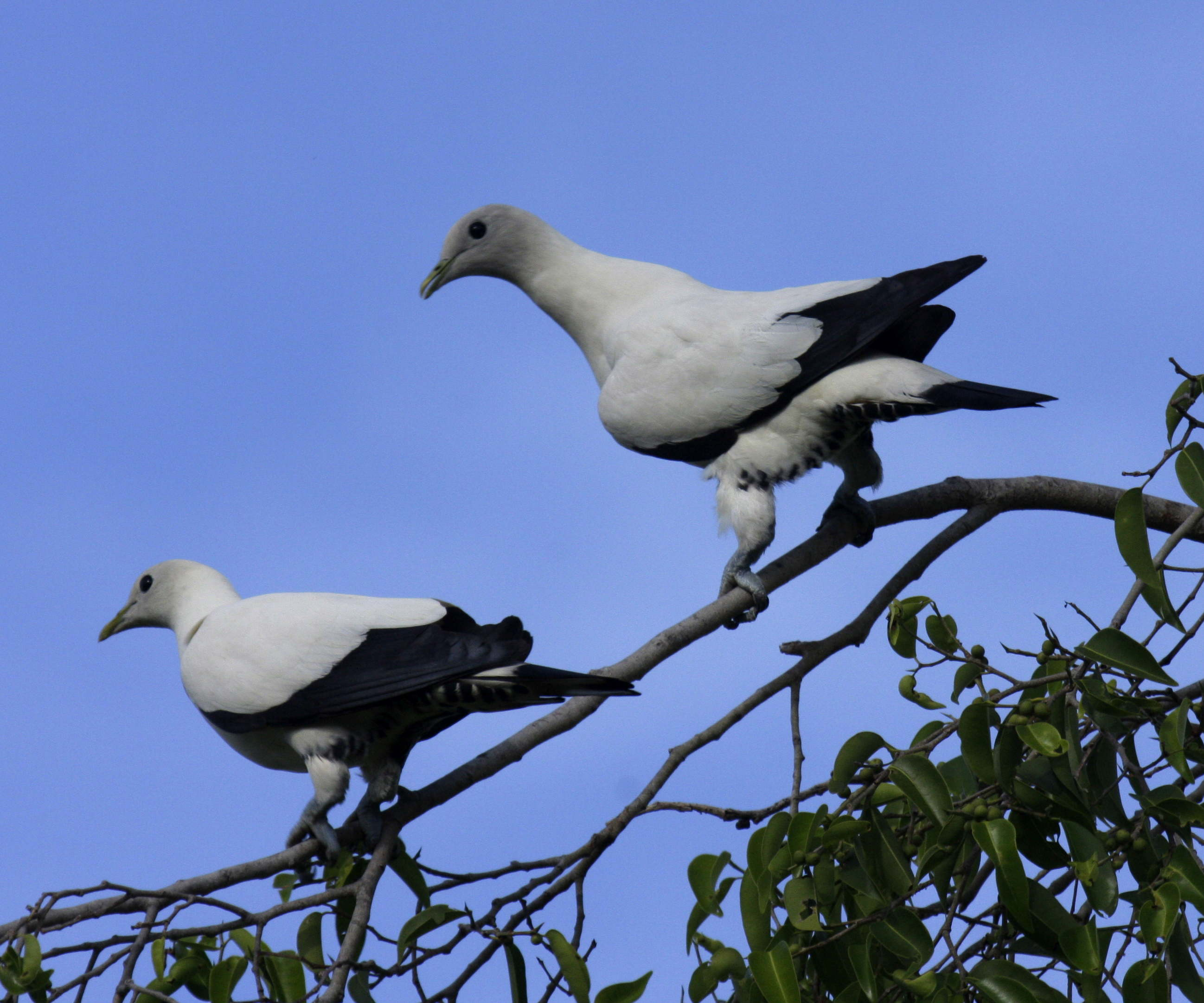 Torresian Imperial-pigeon (Ducula spilorrhoa) Cairns Esplanade, North Queensland, Australia